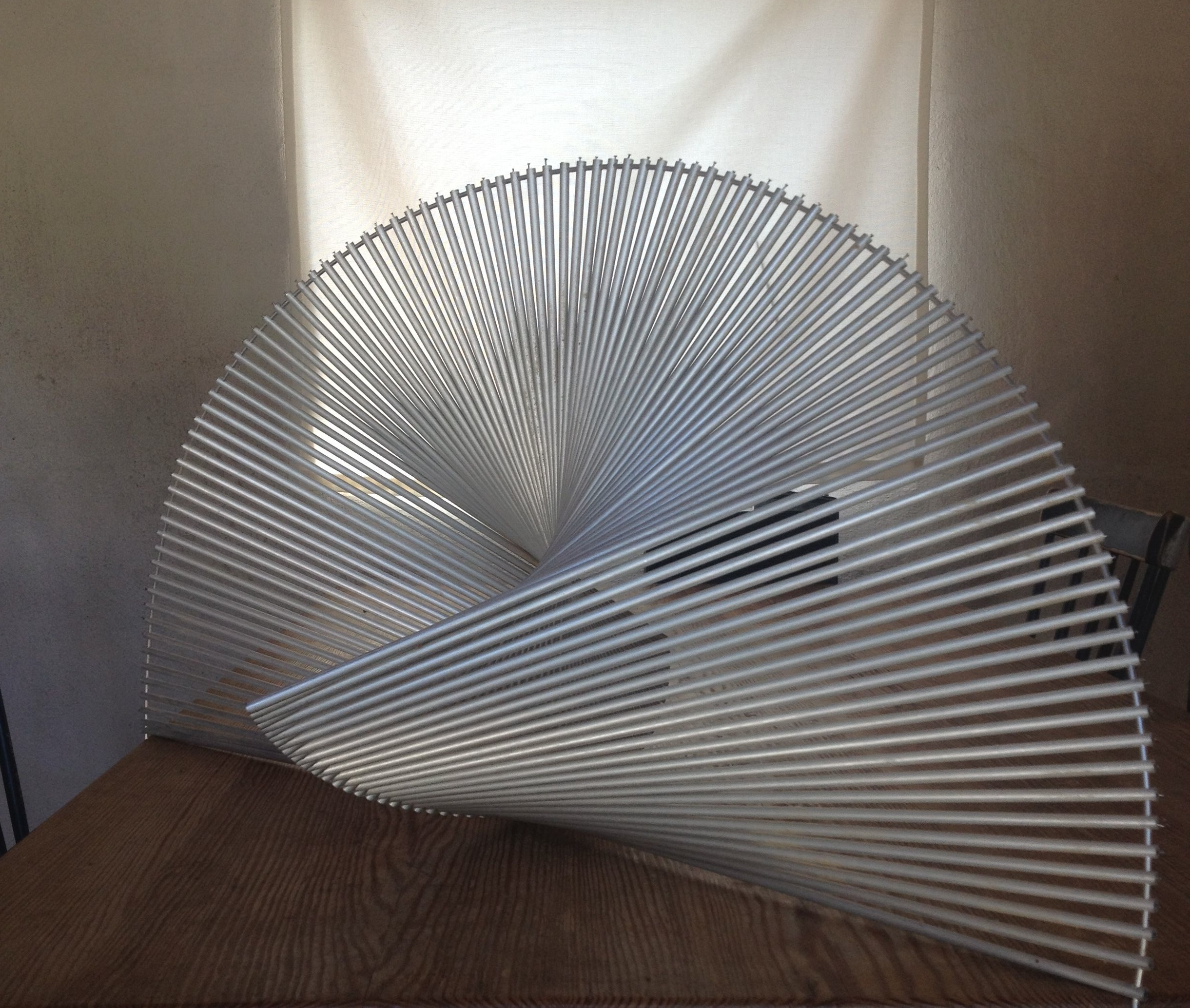 Bertil Herlow Svensson, sector with mirror, ca 1968